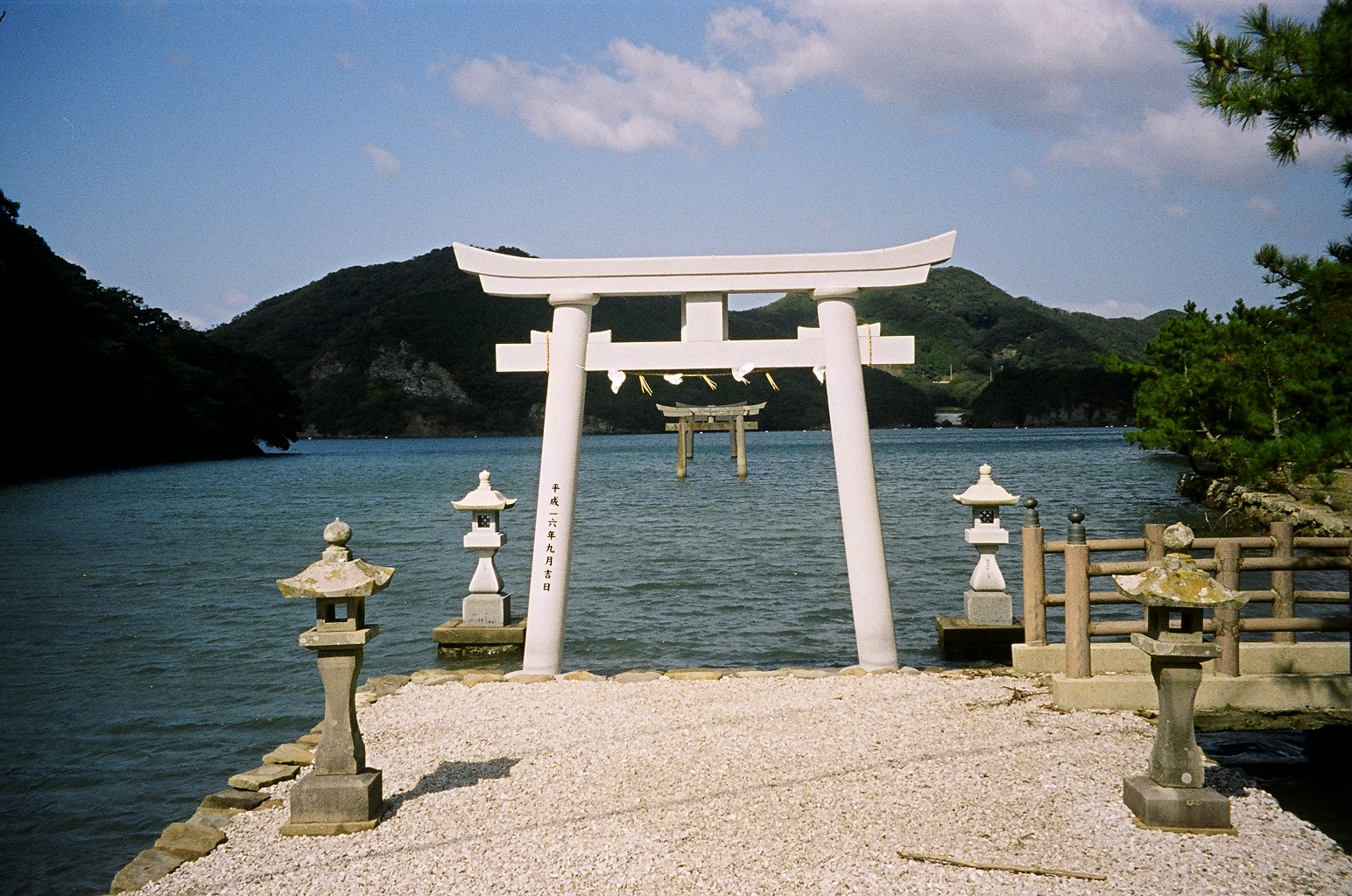 Watatsumi shrine,tsusima,Nagasaki